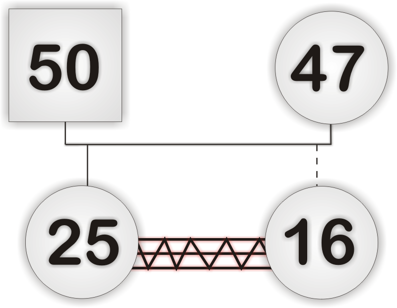 family with two daughters - natural and adopted in genogram